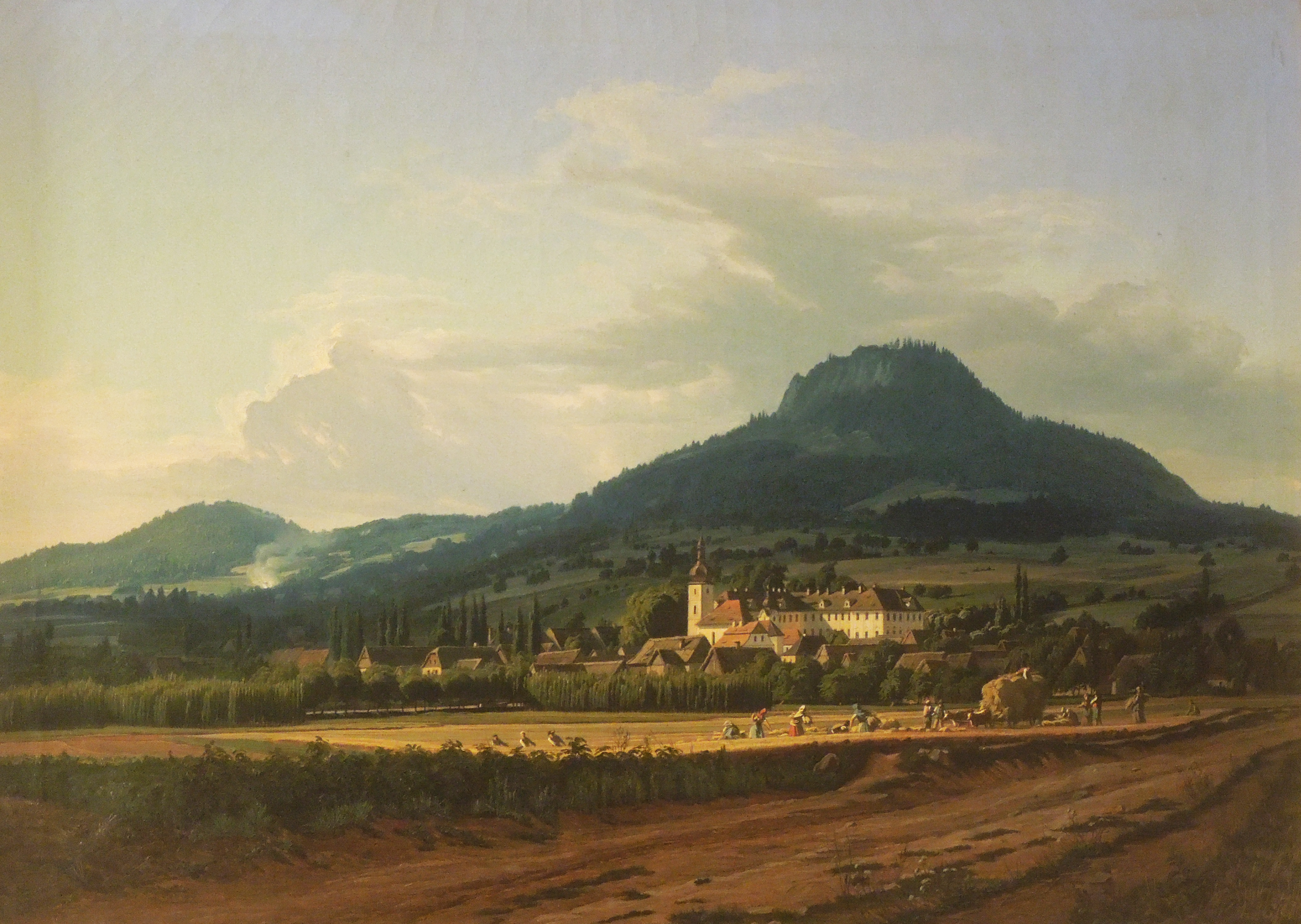 Carl Robert Croll - Liběšice